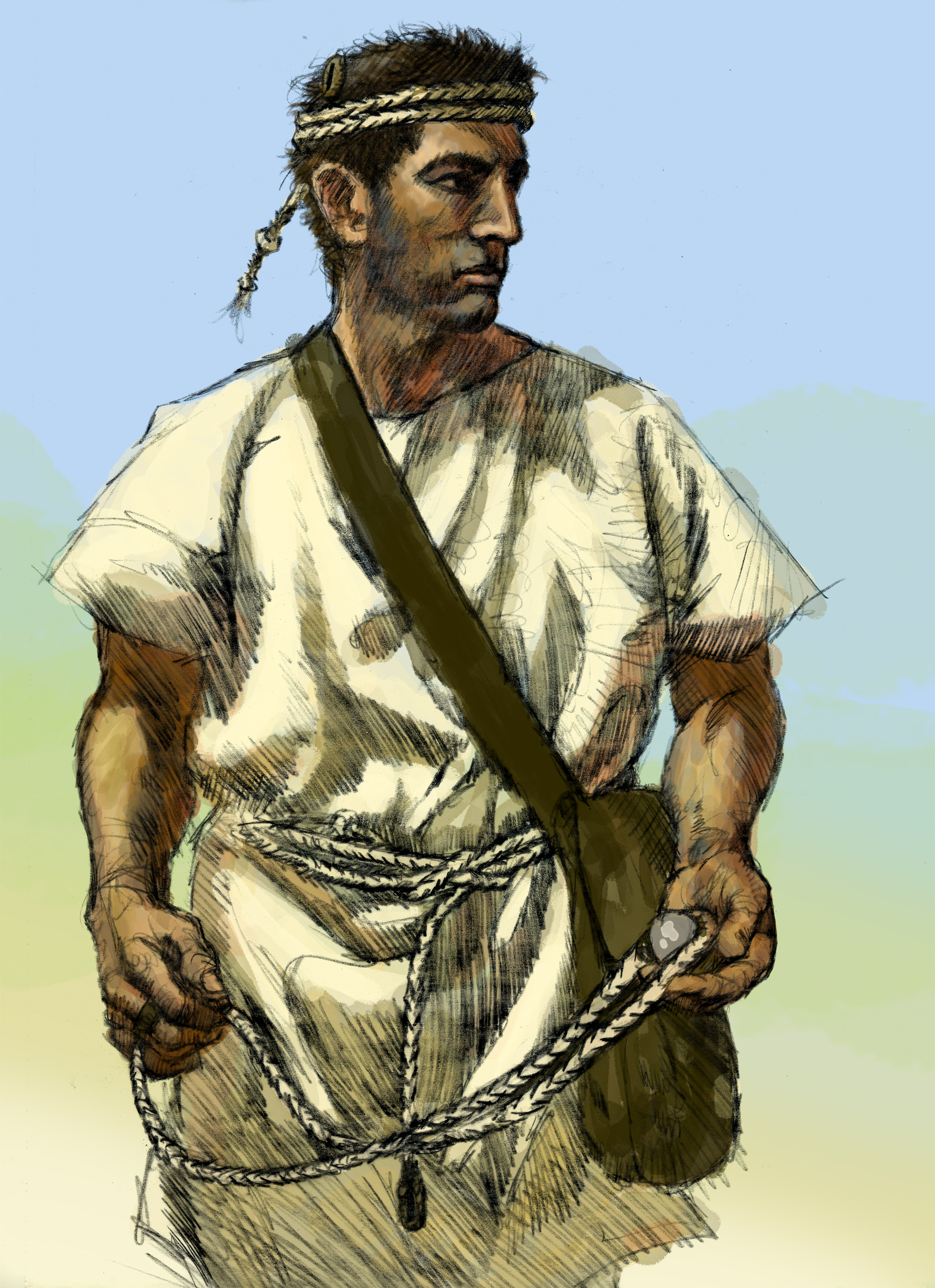 Drawing of a balearic slinger. He wears a spare sling as a headband and a bag of missiles. Image by Johnny Shumate